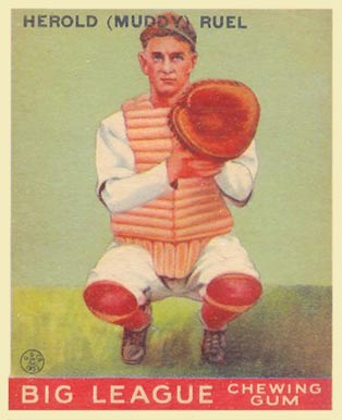 1933 Goudey baseball card of Muddy Ruel of the Boston Red Sox #18. PD-not-renewed.